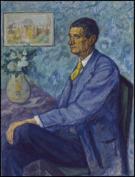 Portrait of Spanish painter Francisco Iturrino